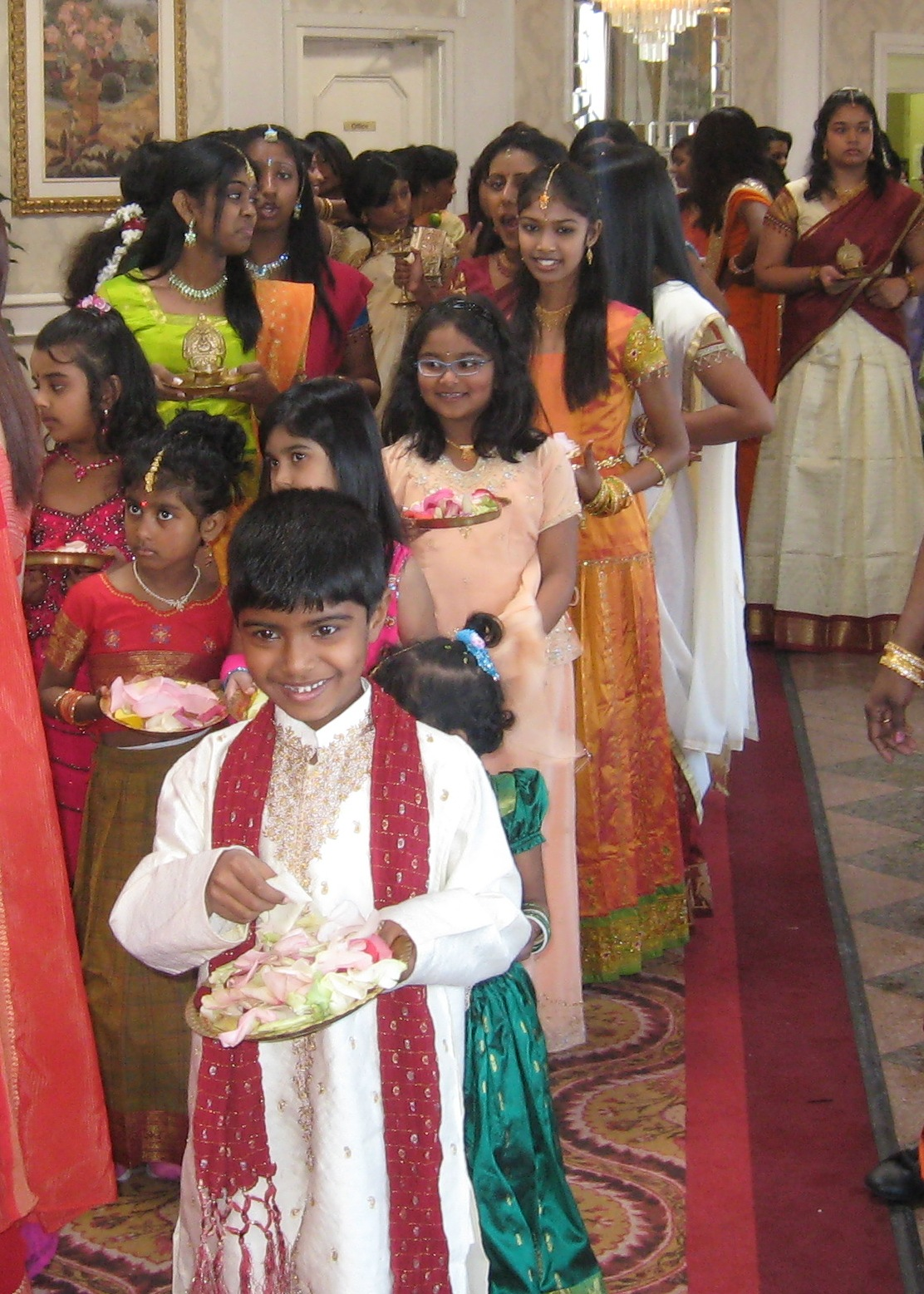 Tamil Canadians of Sri Lankan Tamil origin in traditional clothes